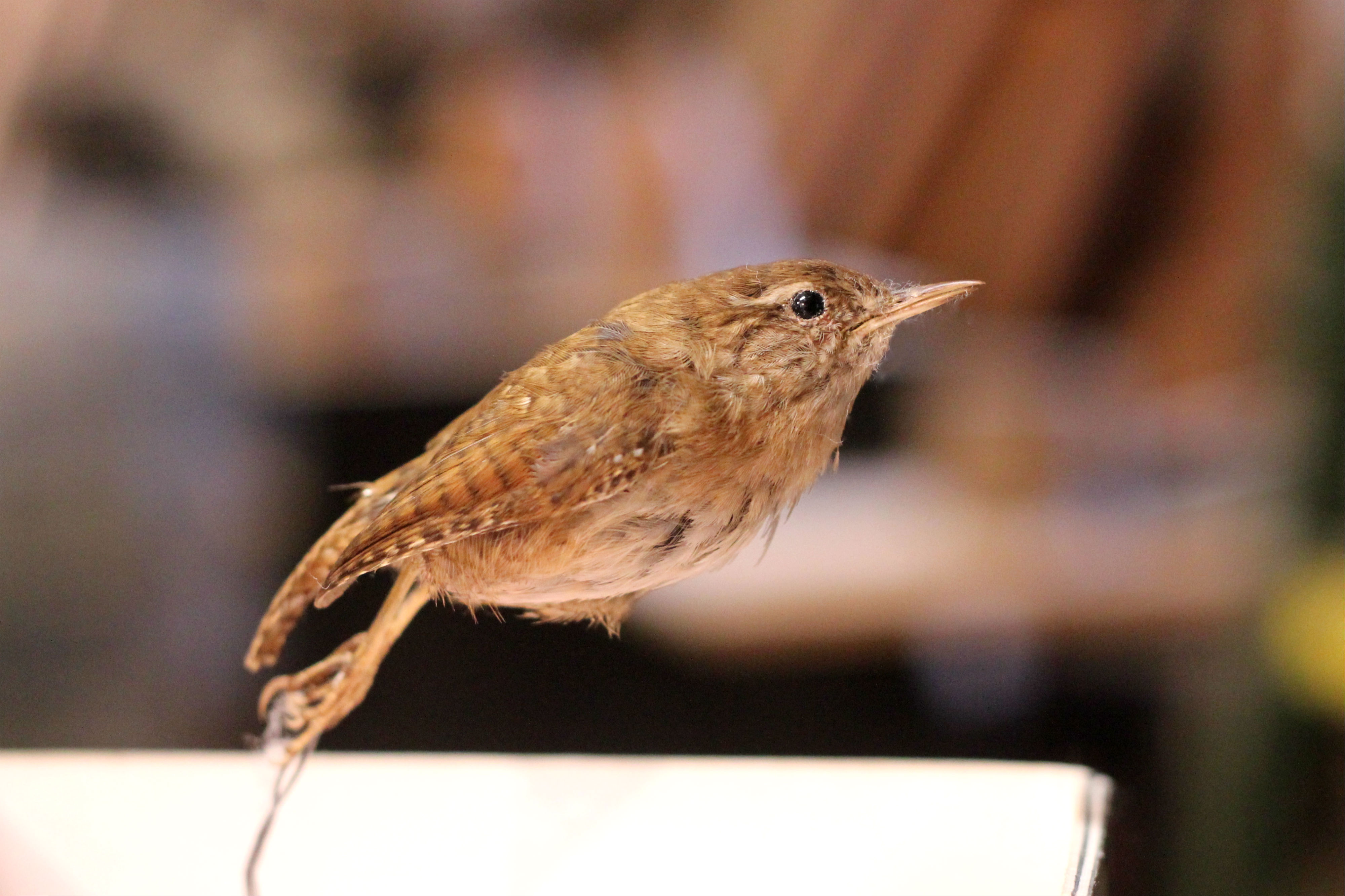 A taxidermied wren used for the traditional Manx dance, Hunt the Wren, by Bock Yuan Fannee on the Isle of Man.